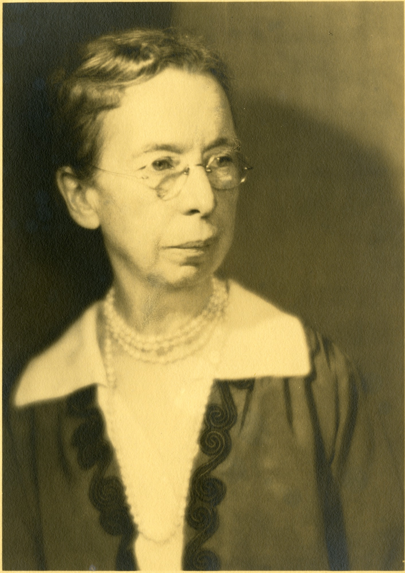 Creator: Pearce, John Howard Subject: Rathbun, Mary Jane 1860-1943 United States Fish Commission United States National Museum Division of Marine Invertebrates Type: Black-and-white photographs Date: 1927 Topic: Women scientists Invertebrates Local number: SIA Acc. 90-105 [SIA2009-2095] Summary: Mary Jane Rathbun (1860-1943) worked for the United States Fish Commission and later at the United States National Museum in the Division of Marine Invertebrates Cite as: Acc. 90-105 - Science Service, Records, 1920s-1970s, Smithsonian Institution Archives Persistent URL:Link to data base record Repository:Smithsonian Institution Archives View more collections from the Smithsonian Institution.